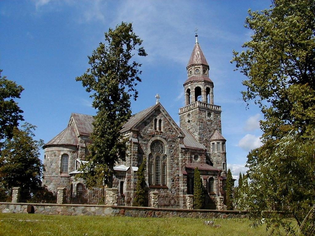 Saint John the Baptist church in Višķi, Latvia